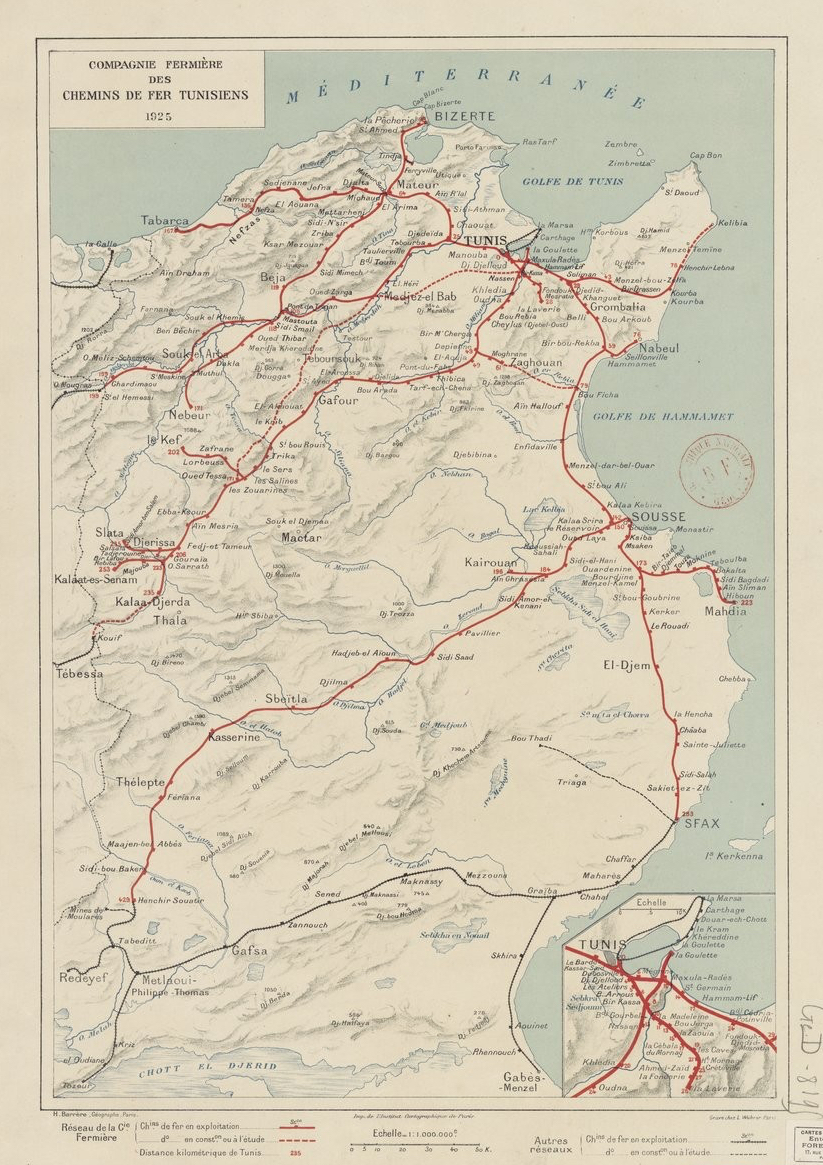 Compagnie fermière des chemins de fer tunisiens (carte)